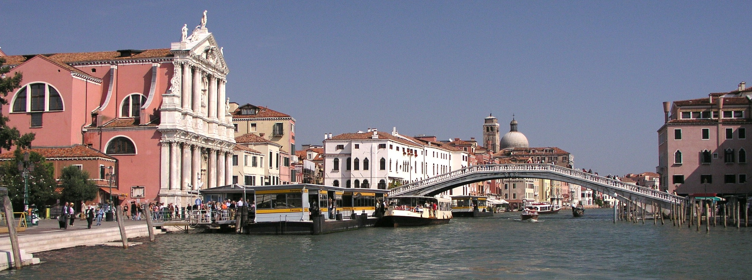 Grand Canal - Scalzi, Venice, Italy